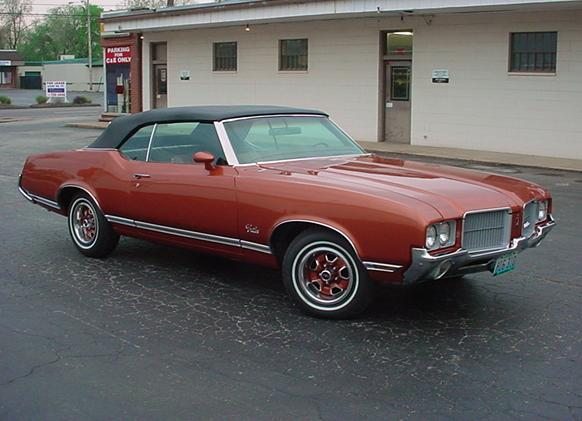 1971 Oldsmobile Cutlass Supreme Convertible I, the creator of this work, hereby release it into the public domain. This applies worldwide. In case this is not legally possible, I grant any entity the right to use this work for any purpose, without any conditions, unless such conditions are required by law.